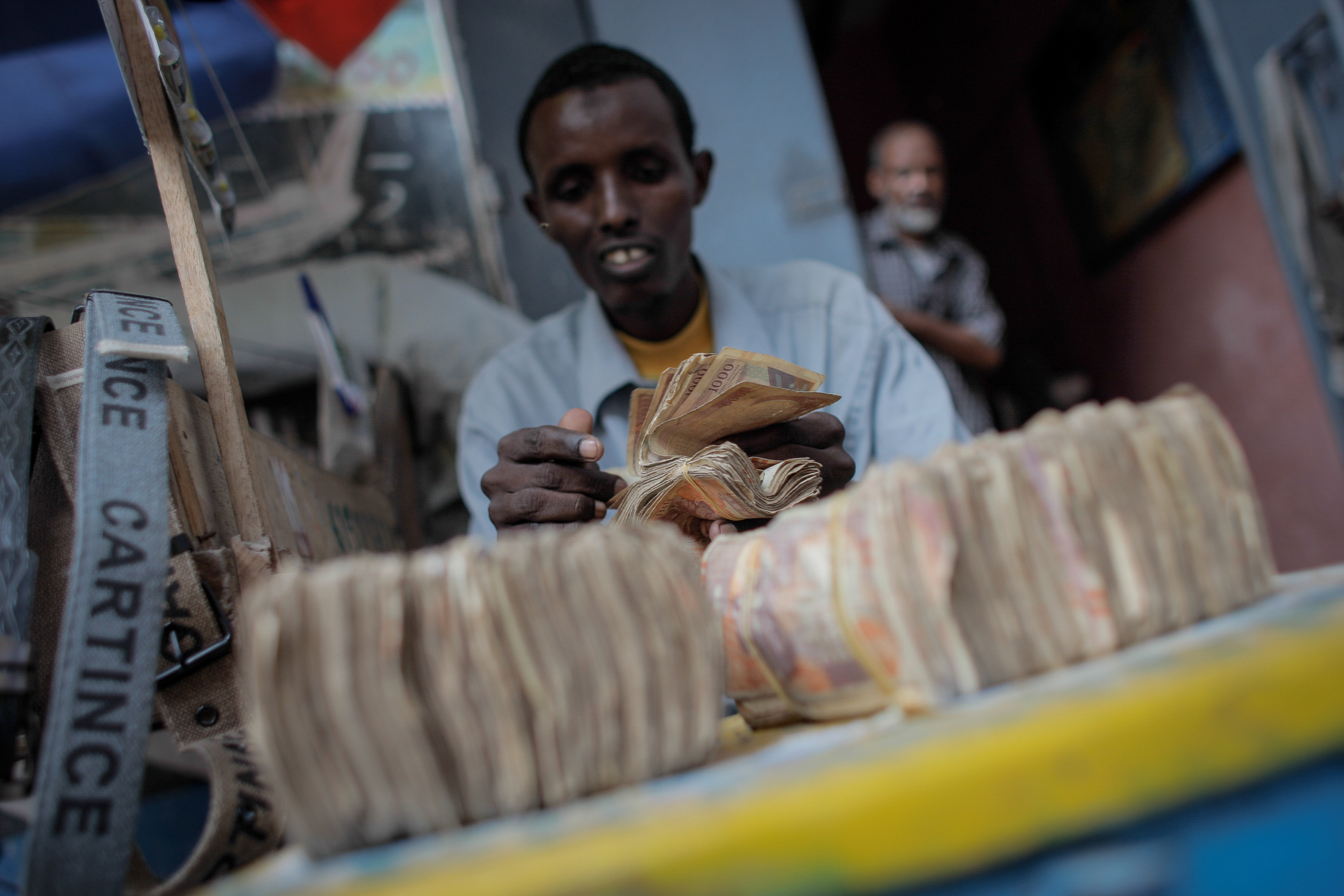 A money exchanger counts Somali shilling notes on the streets of the Somali capital Mogadishu. Millions of people in the Horn of Africa nation Somalia rely on money sent from their relatives and friends abroad in the form of remittances in order to survive, but it is feared that a decision by Barclays Bank to close the accounts of some of the biggest Somali money transfer firms – due to be announced this week - will have a devastating effect on the country and its people. According to the United Nations Development Programme (UNDP), an estimated $1.6 billion US dollars is sent back annually by Somalis living in Europe and North America. Some money transfer companies in Somalia have been accused of being used by pirates to launder money received form ransoms as well as used by Al Qaeda-affiliated extremist group al Shabaab group to fund their terrorist activities and operations in Somalia and the wider East African region. AU/UN IST PHOTO / STUART PRICE.